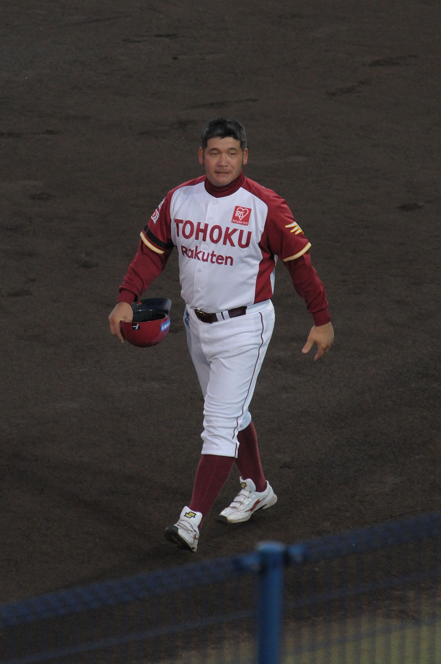 Hitoshi Taneda, coach of the Tohoku Rakuten Golden Eagles, at Akita Prefectural Baseball Stadium.